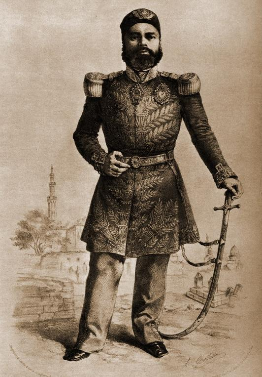 Portrait of Abbas Hilmi I (1813–1854), wāli (viceroy) of Egypt, in military uniform. The portrait was published on 8 May 1852 in Gleason's Pictorial Drawing-Room Companion with the caption "Portrait of Abbas Pacha, Viceroy of Egypt" (see proof).